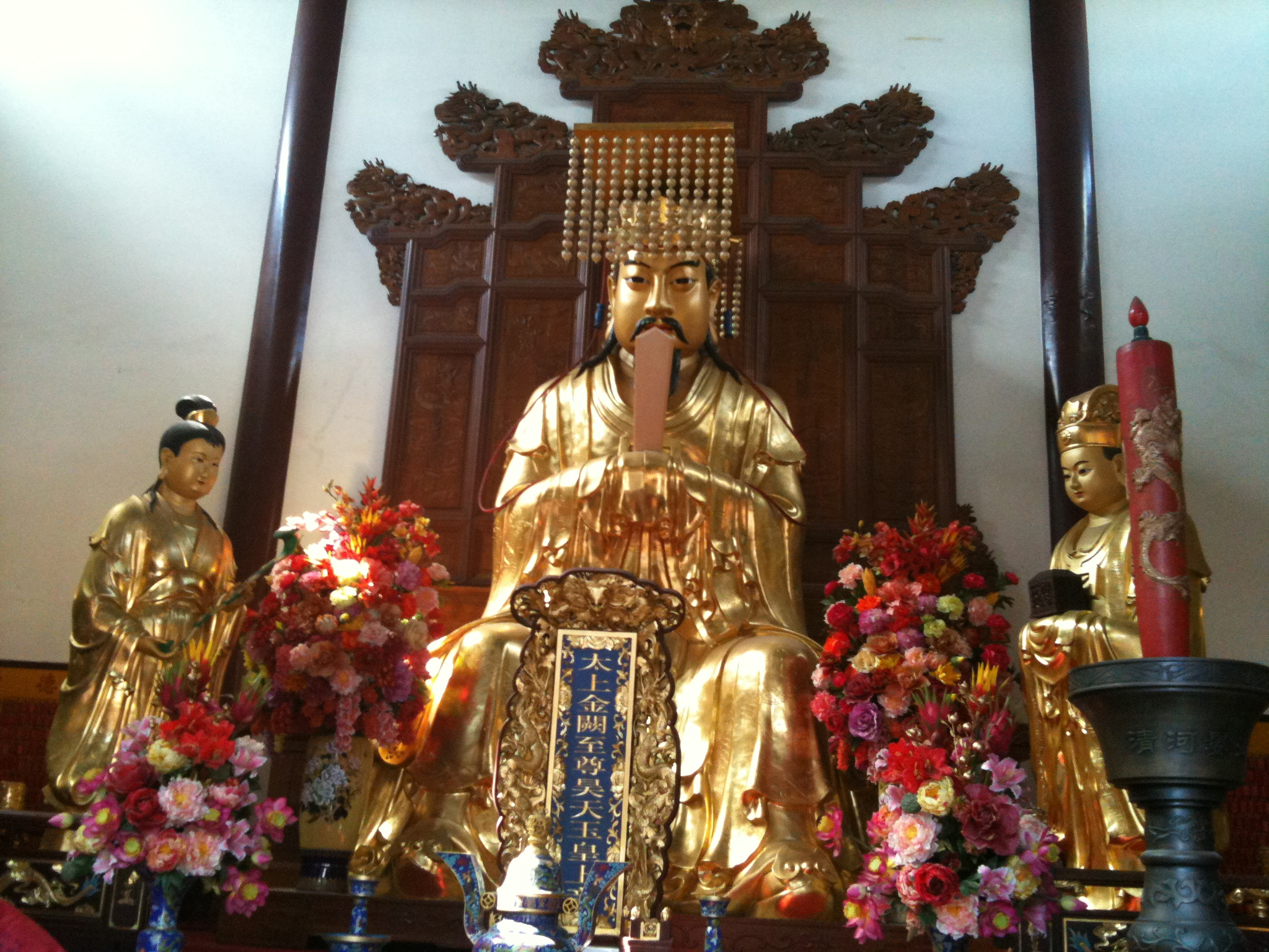 White Cloud Temple in Shanghai - Jade Emperor